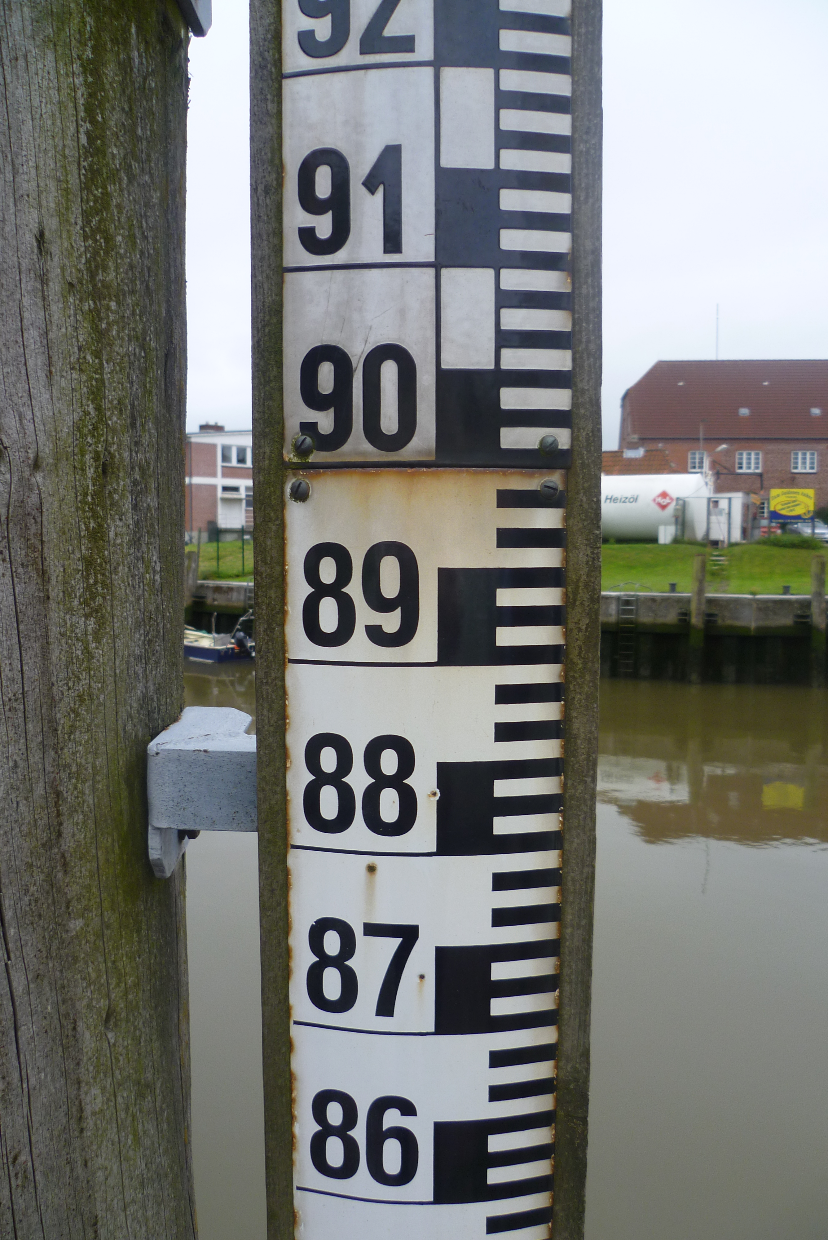 Tide Gauge in Tönning/Germany